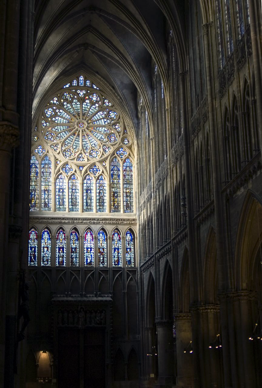 west rose window of the cathedral of Metz (1380-1392)